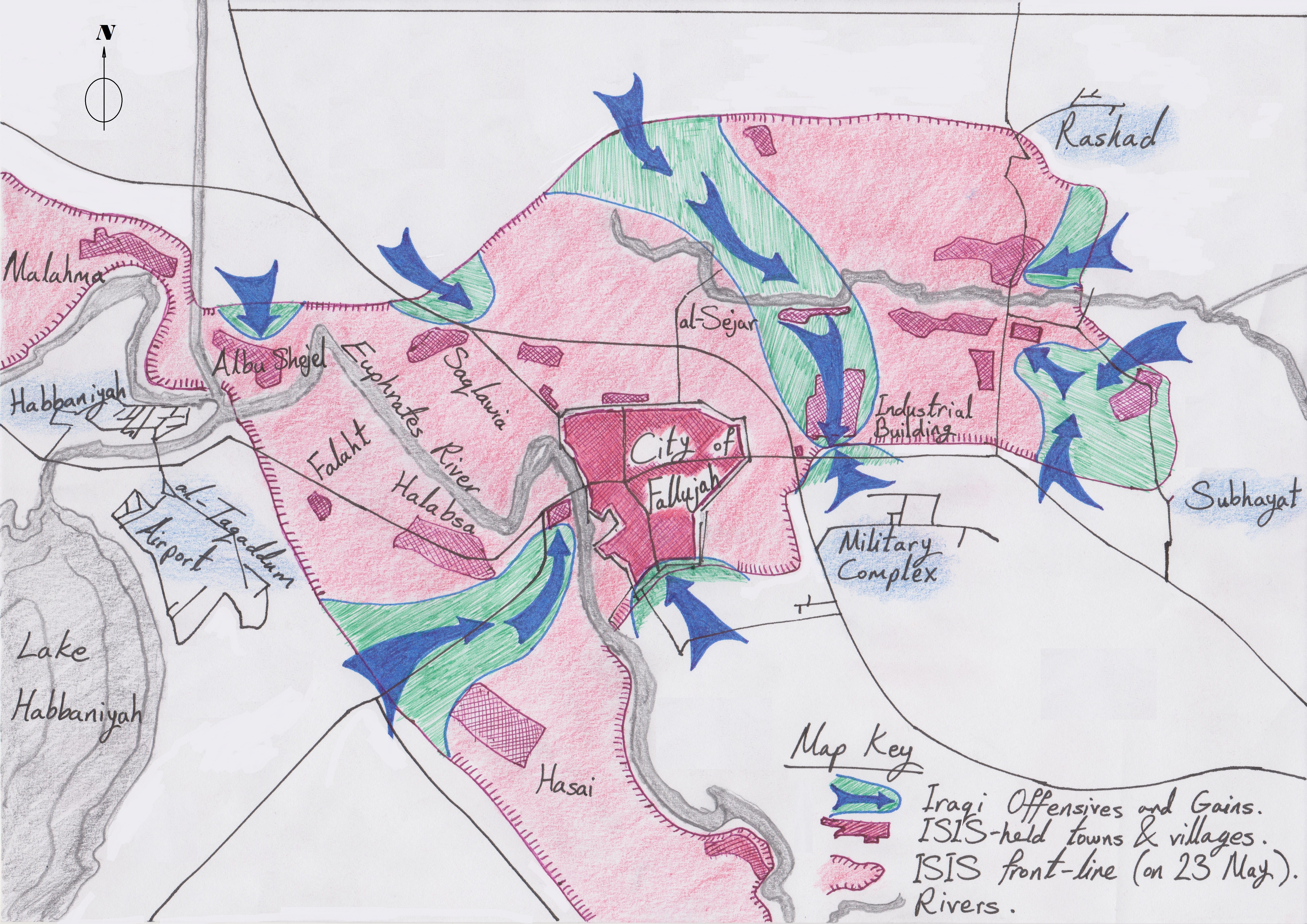 Fallujah Operations May 23